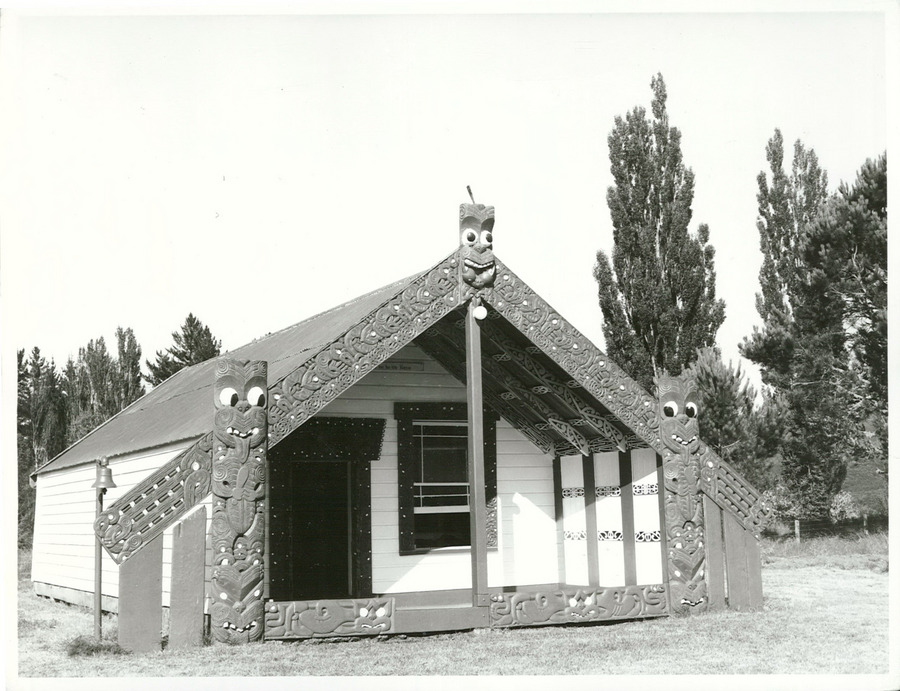 This image is from the National Publicity Studios collection. Title: Maori meeting house dating from the Te Kooti era on the Murumurunga marae now used by the Ringatu church, Te Whaiti, Ureweras. Date: January 1975 Photographer: G. Reithmaier Murumurunga marae is located on the edge of Te Urewera, 20 km outside Murupara. The primary hapū are Ngāti Hamua ki Te Whaiti, Ngāti Kohiwi, Ngāti Mahanga, Ngāti Te Au, Ngāti Te Karaha, Ngāti Tuahiwi, Ngāti Whare ki Ngā Potiki and Warahoe ki Te Whaiti of Ngāti Whare. The whare tipuna is named Wharepakau-tao-tao-ki-te-Kapua. Murumurunga connects ancestrally to the Mātaatua waka, the maunga Tuwatawata and the awa Whirinaki. Archives reference: AAQT 6539 W3537 Box 150/ B7074 Material from Archives New Zealand Additional information from